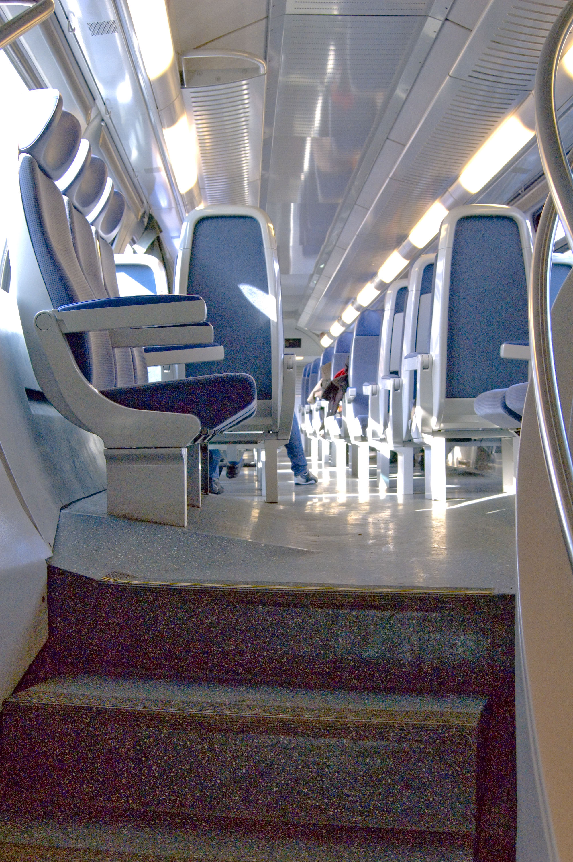 ÖBB 8633 inside